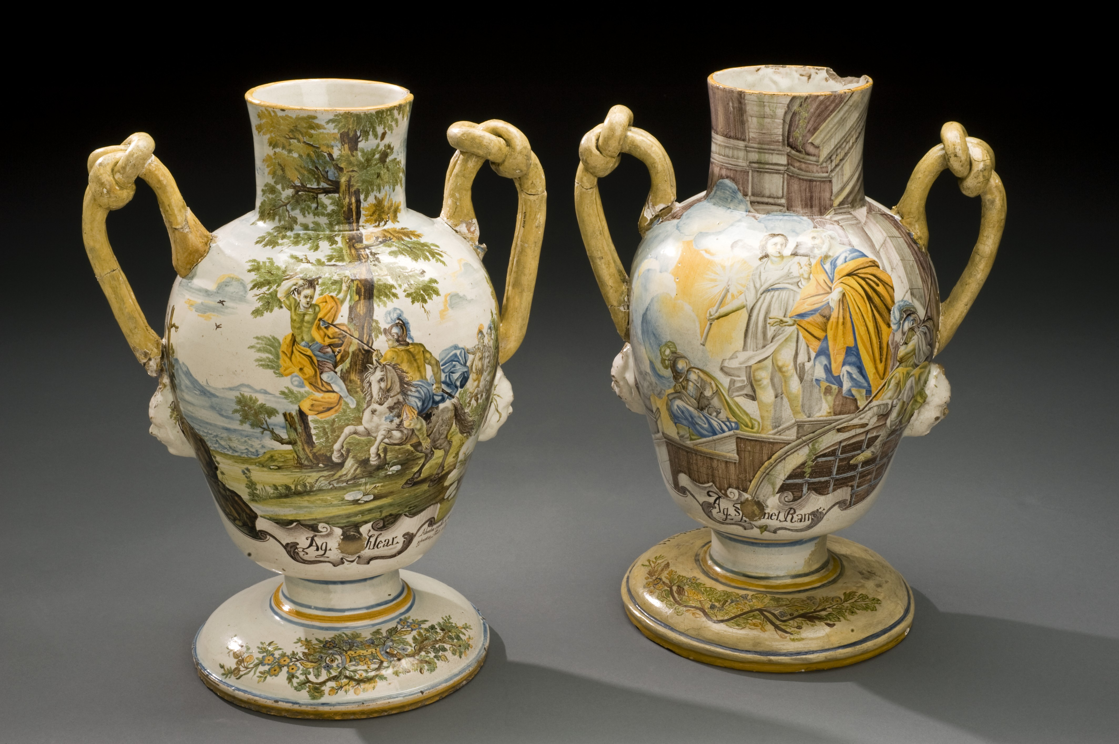 These earthenware jars are illustrated with scenes from both the Old and New Testaments of the Bible. The Old Testament scene is the Death of Absalom. Absalom, who rebelled against his father, King David, was suspended by his hair from an oak tree and impaled with a spear by Joab (Book of Samuel II 18: 9-15). The jar contained Scurvy grass water, which was used for opening up obstructions in the body. It was also used for combating scurvy, a vitamin C deficiency that causes the gums to bleed and sores to open up on the face. The New Testament scene depicted on the second jar shows St Peter’s escape from prison after being released by an angel of the Lord while the Roman guards slept. Peter had been arrested for being a Christian (Acts 12: 5-9). The jar contained Buckthorn Water, which was used to purge the body but left the patient with a hard-to-quench thirst. designer: Criscuolo, P Place made: Naples, Campania, Italy Wellcome Images Keywords: storage vase; Scurvy; earthenware; Pharmacy